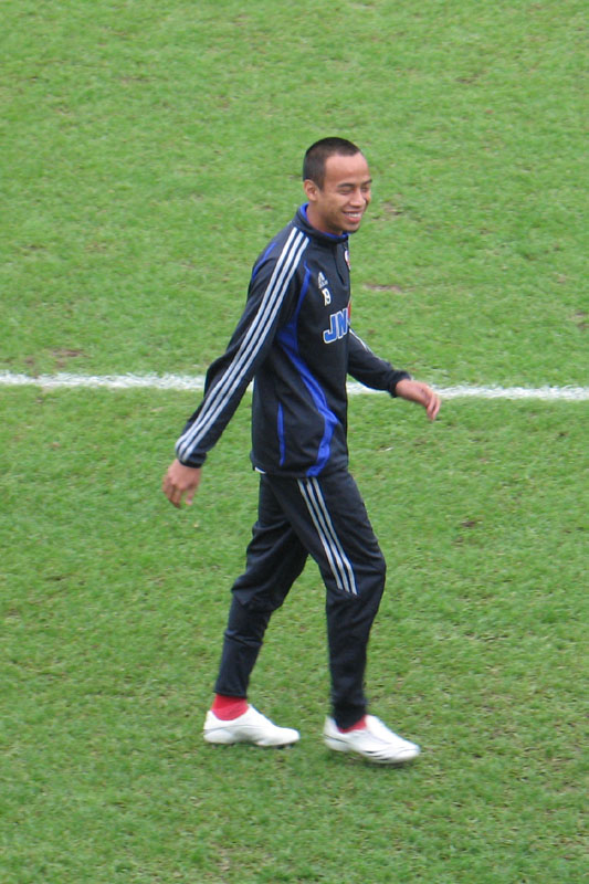 Cheng Siu Wai of South China AA. He is nicknamed "Henry" because of his similar appearance to French footballer Thierry Henry.